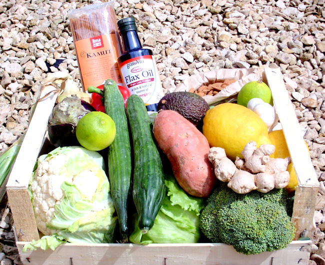 A box filled with the types of foods an Alkalarian would typically eat.